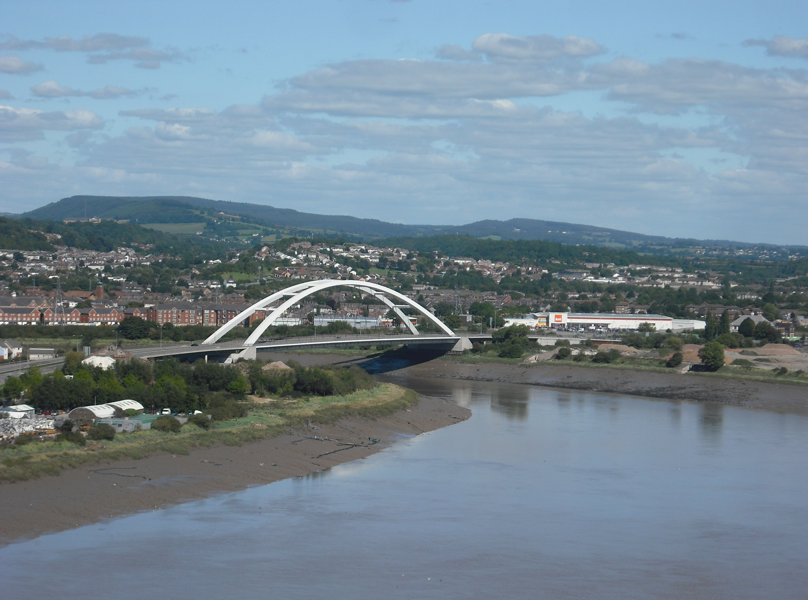 City Bridge in Newport, photographed from the Transporter Bridge